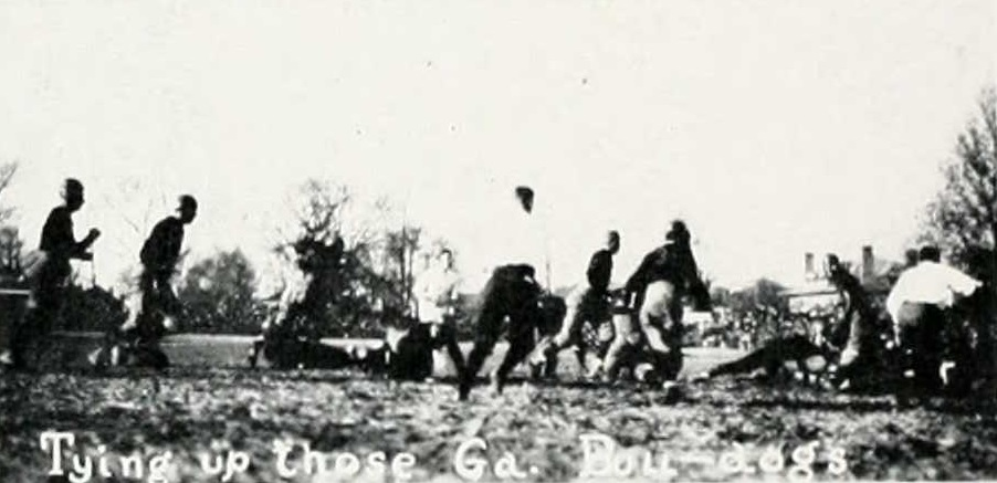 Image of the deciding play of the 1921 Georgia-Vanderbilt game, wherein Vanderbilt tied the score 7-7 with a touchdown off an onside kick near the end of the contest. The game would thus decide two of the four claimants to a Southern title.